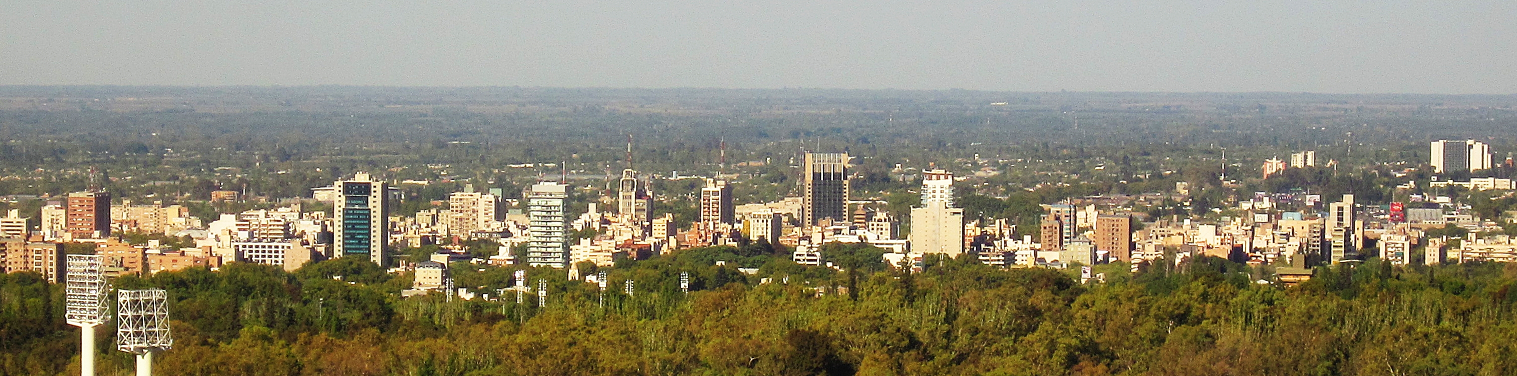 Vista a las torres más altas de la Ciudad de Mendoza.